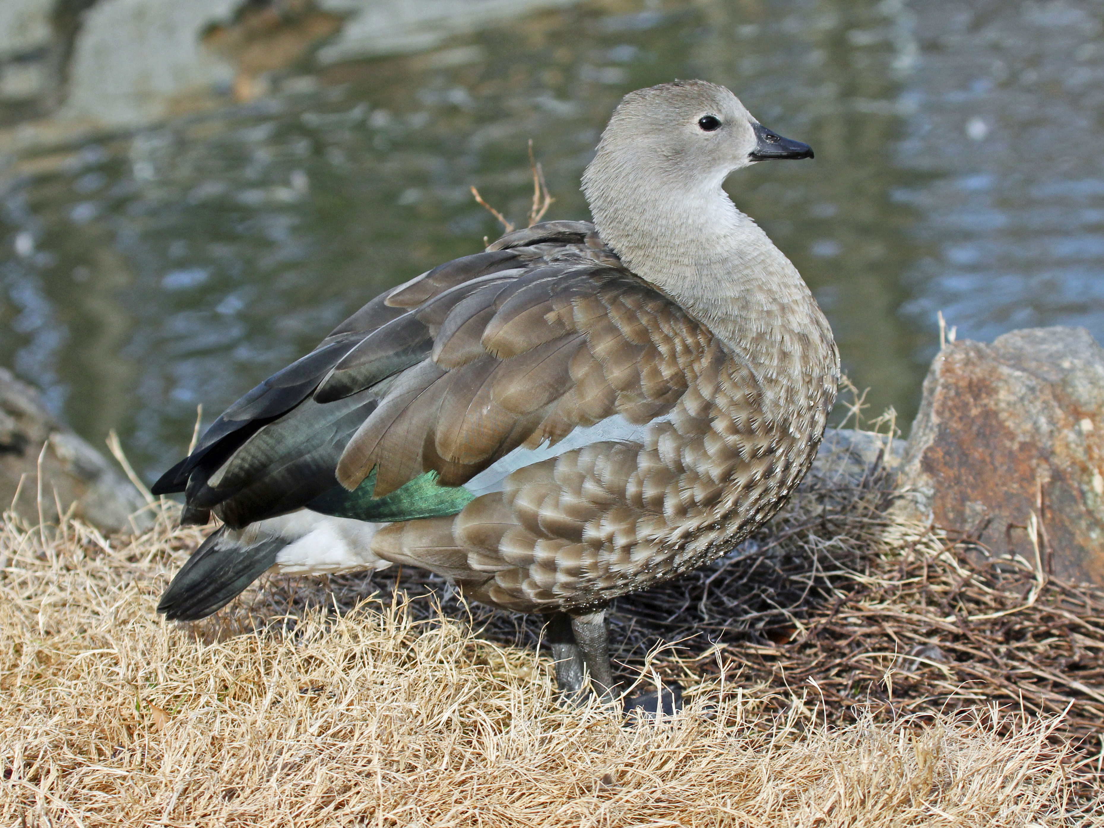 Blue-winged Goose (Cyanochen cyanoptera) - Sylvan Heights Waterfowl Park, Scotland Neck, North Carolina